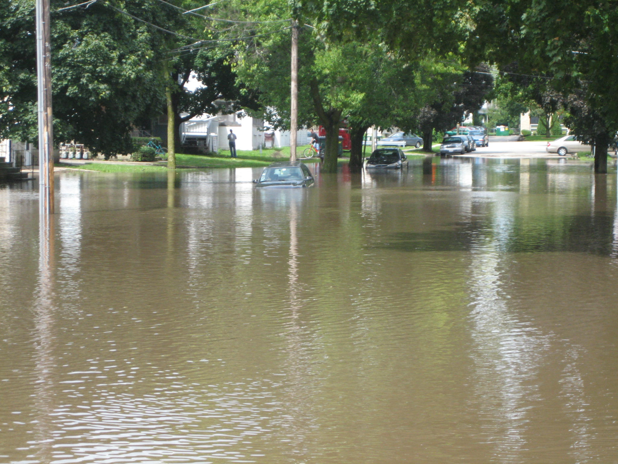 The Kishwaukee River in DeKalb, Illinois, United States on August 24, 2007, the river crested in DeKalb at 15.27 feet (all time record 15.8 feet) causing major flooding. See National Weather Service for historical crests. This was only the second time the river rose above 15 feet since the level of the river started being recorded. Image at John Street just east of the Northern Illinois University campus.